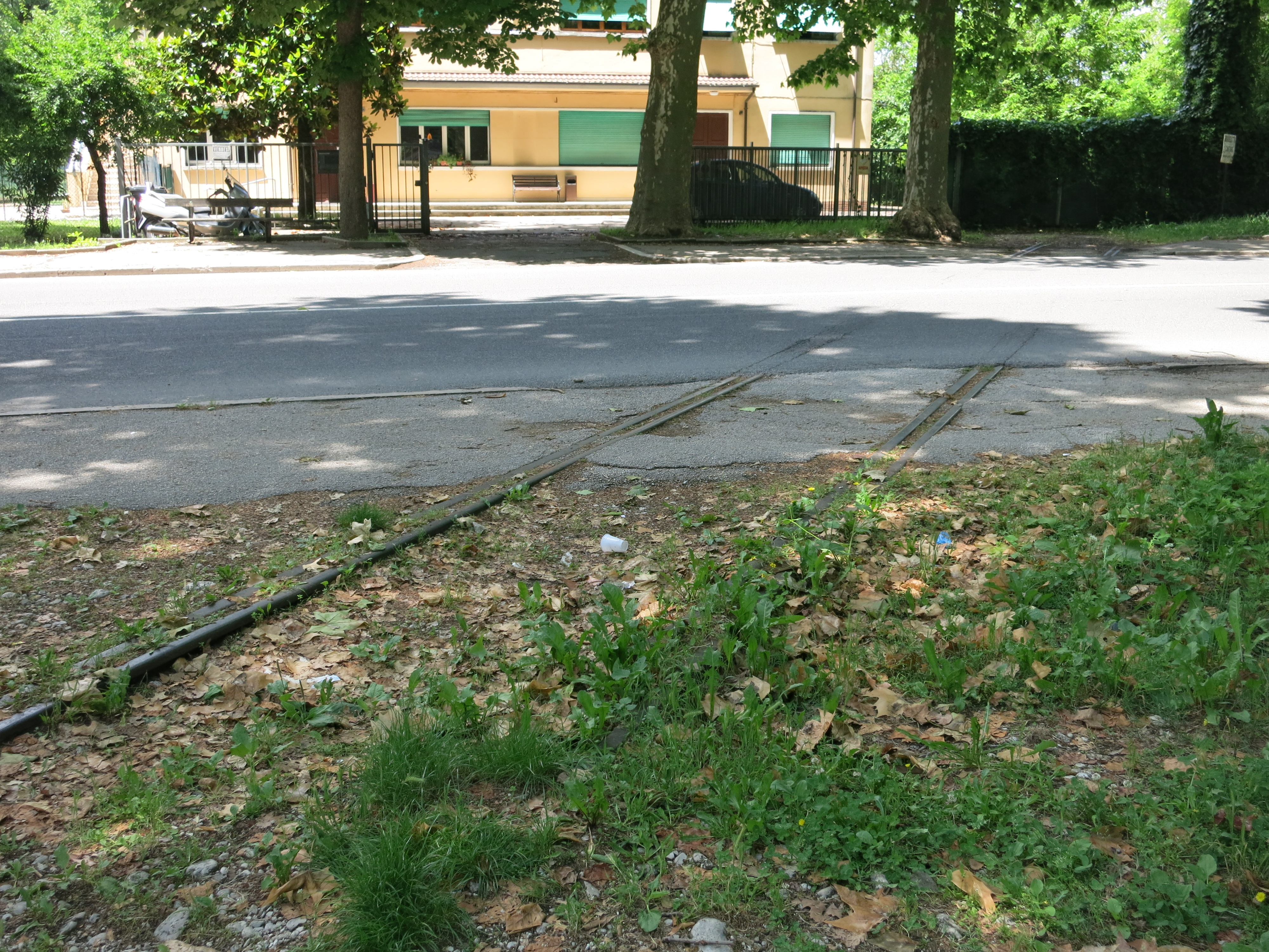 Remains of the track that linked Rieti's old industrial area with the train station - crossing of Maraini avenue